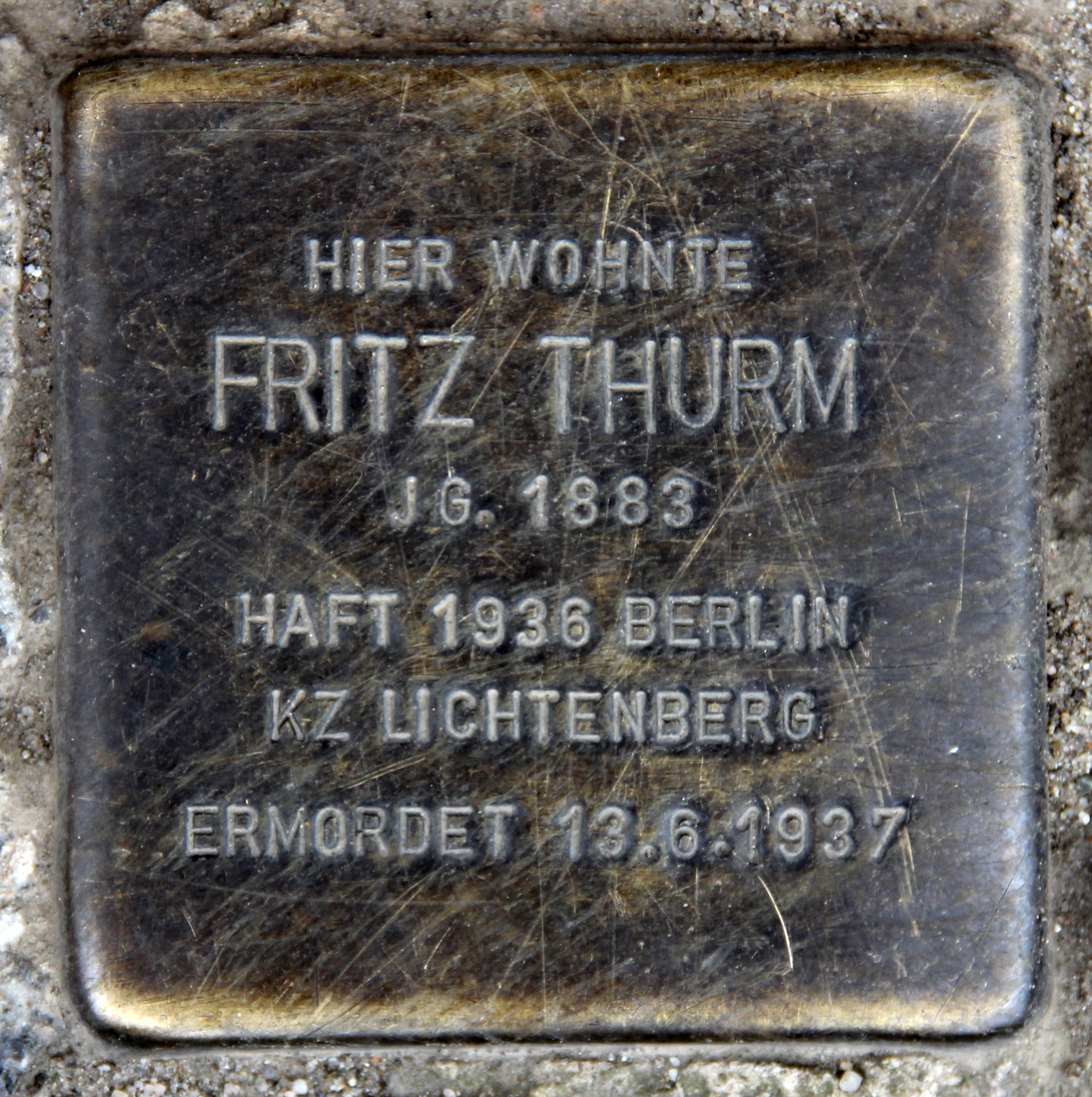 "Stolperstein" (stumbling block), Fritz Thurm, Kreutzigerstraße 28, Berlin-Friedrichshain, Germany; with misspelled name of KZ